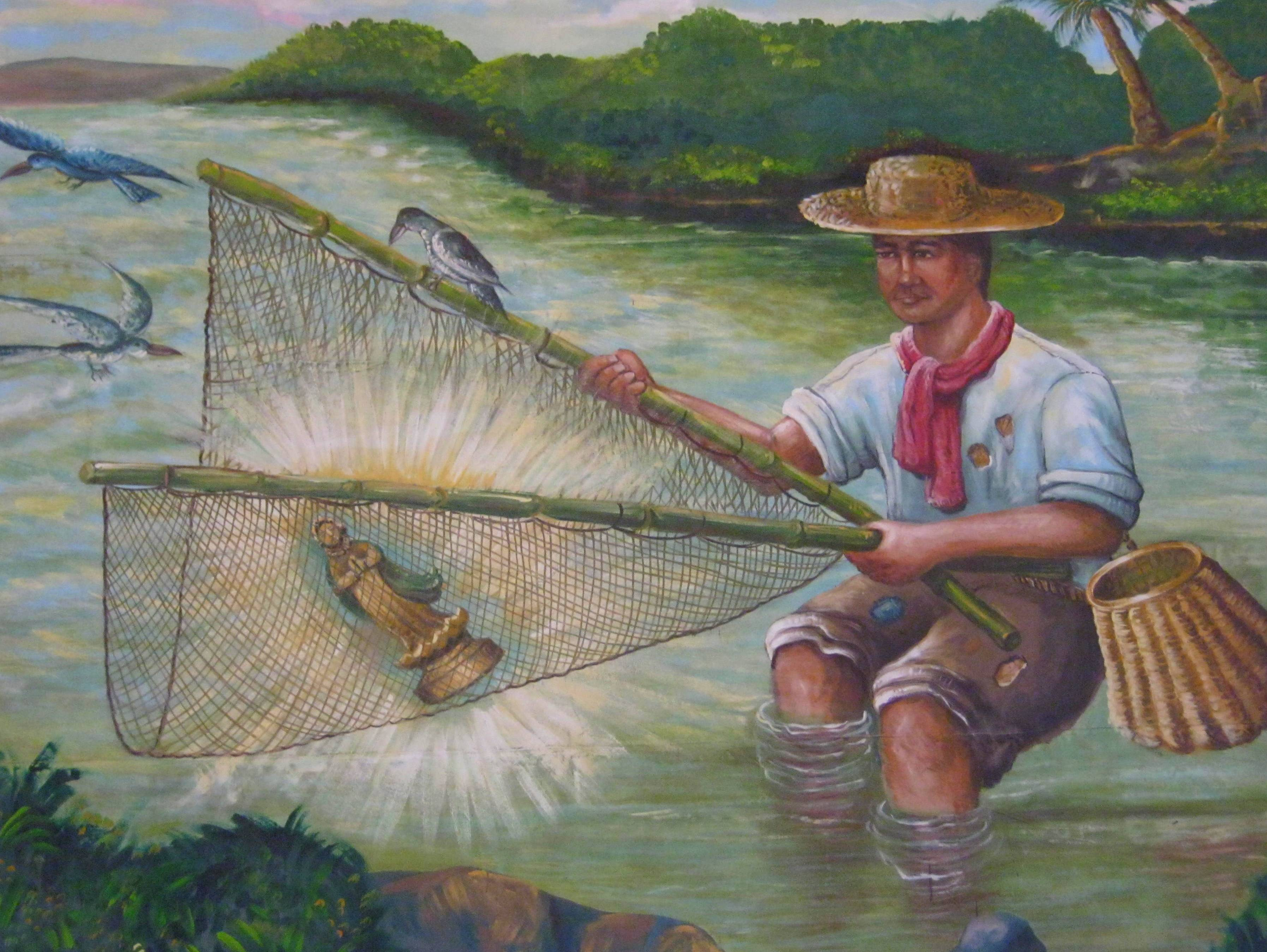 The discovery of the image of the La Purisima Concepcion by Juan Maningcad in 1603, later named as Nuestra Senora de Caysasay.